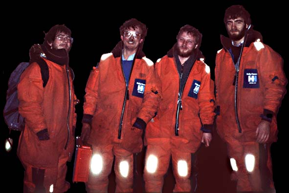 kils group after ice mission in Helly-Hansen survival suits photo Uwe Kils